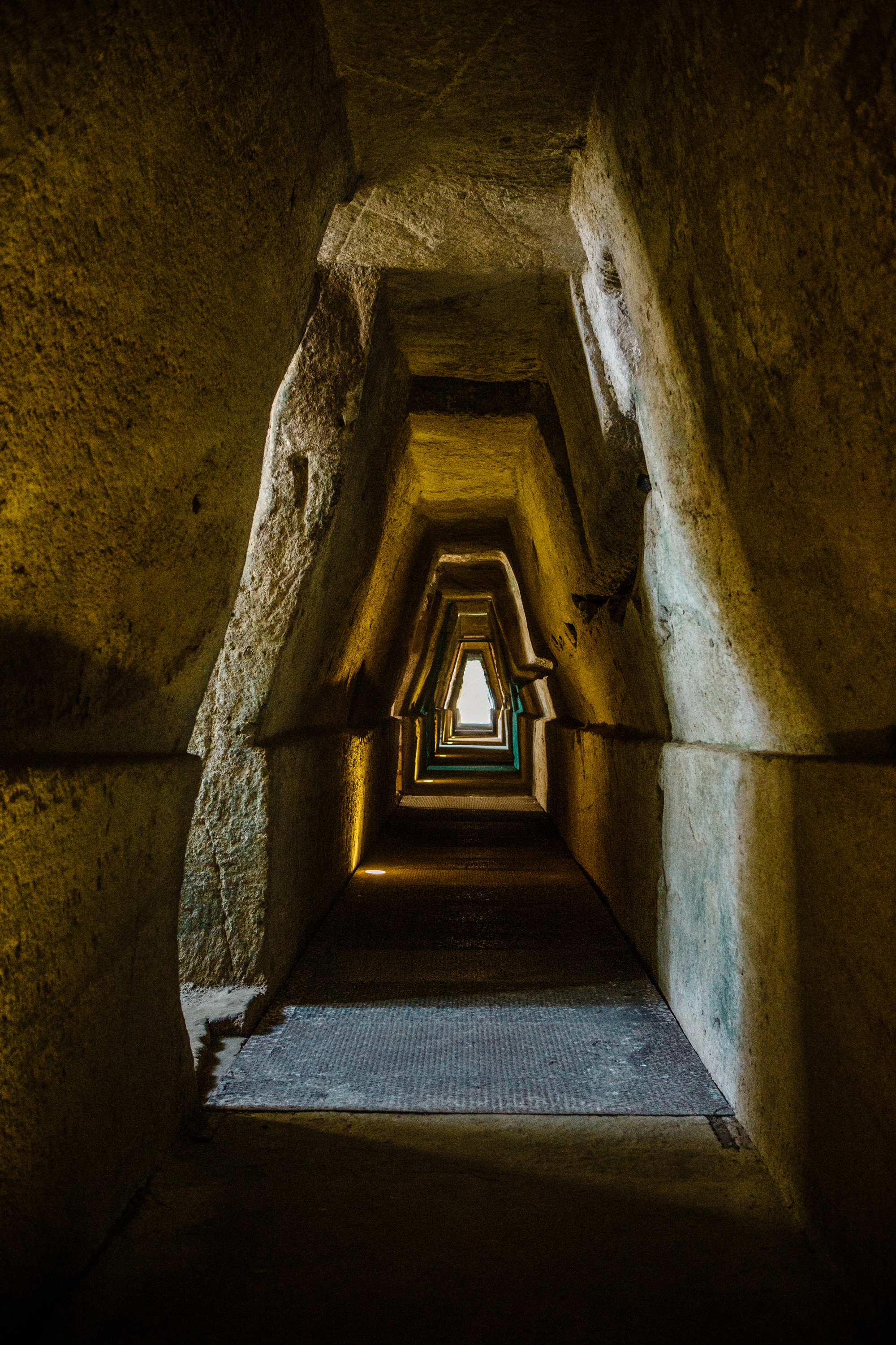 This is a photo of a monument which is part of cultural heritage of Italy.